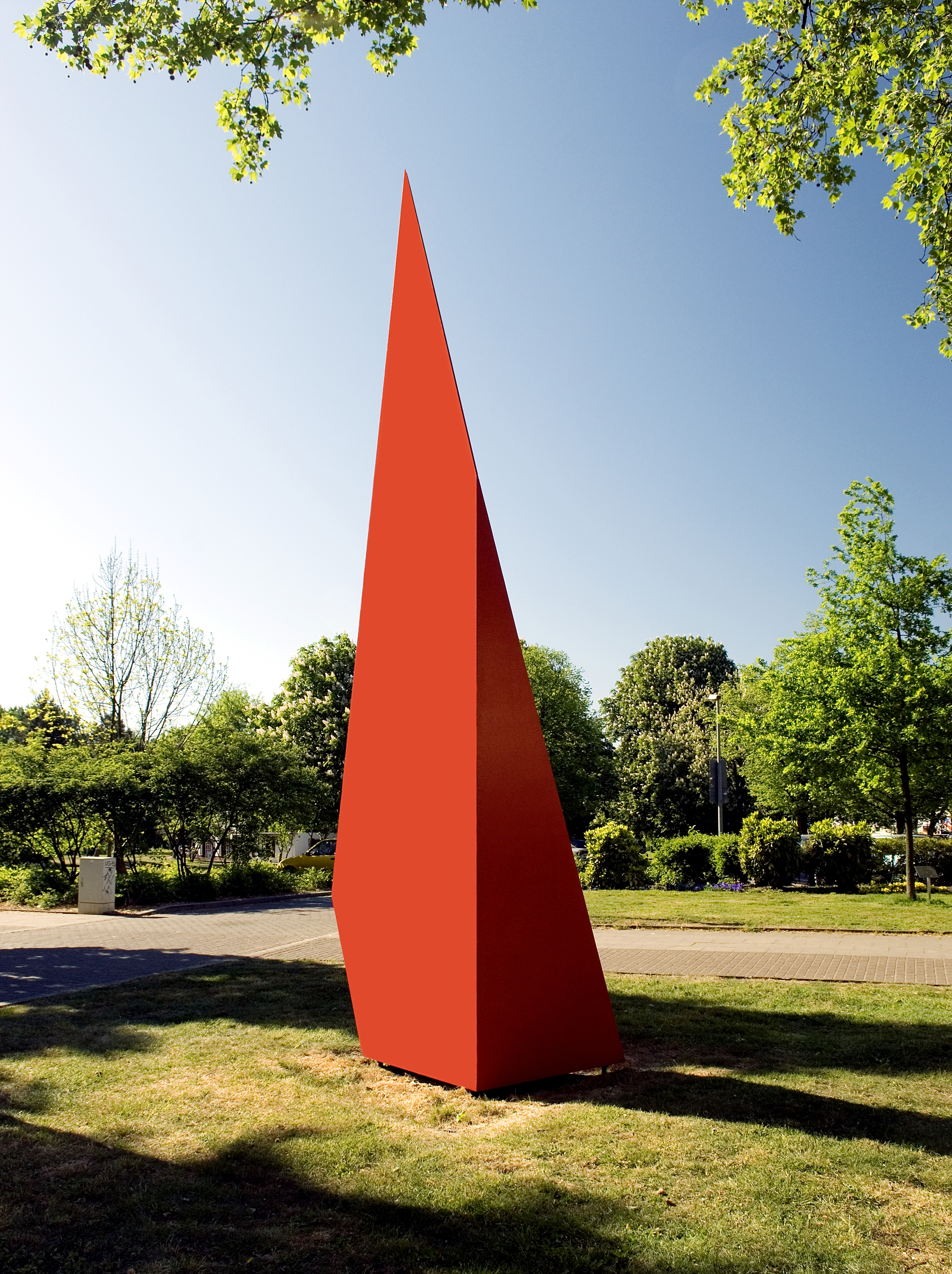 Sculpture Cubecrack Nr. 1, steel, by HD Schrader (1996) in Herne/Germany